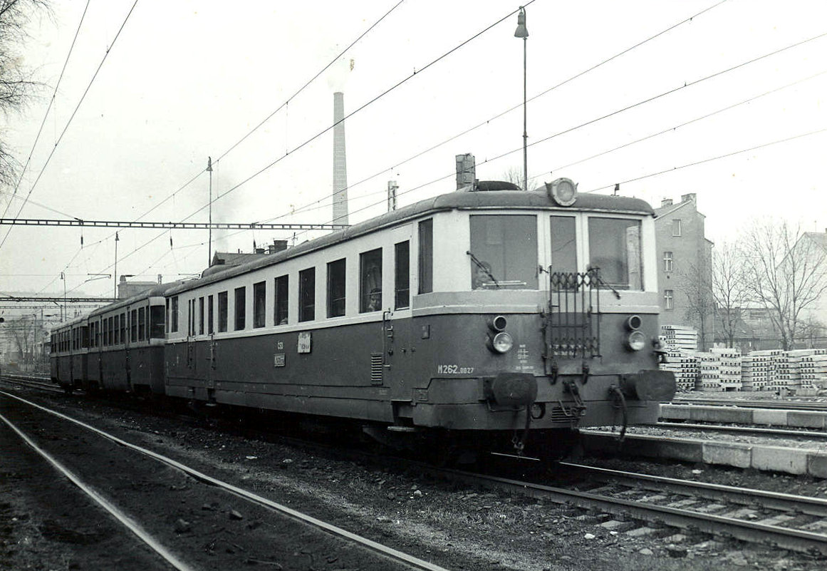 ČSD Class M 262.0 Nr. 027 motor car at Ústí nad Labem sever railway station